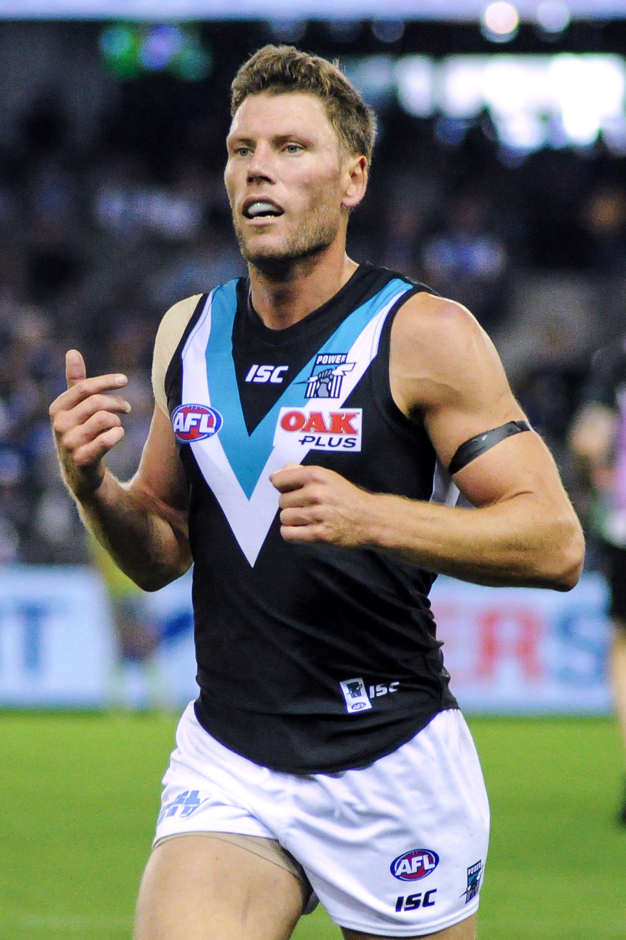 Brad Ebert during the AFL round six match between North Melbourne and Port Adelaide on Saturday, 28 April 2018 at Etihad Stadium in Melbourne, Victoria.